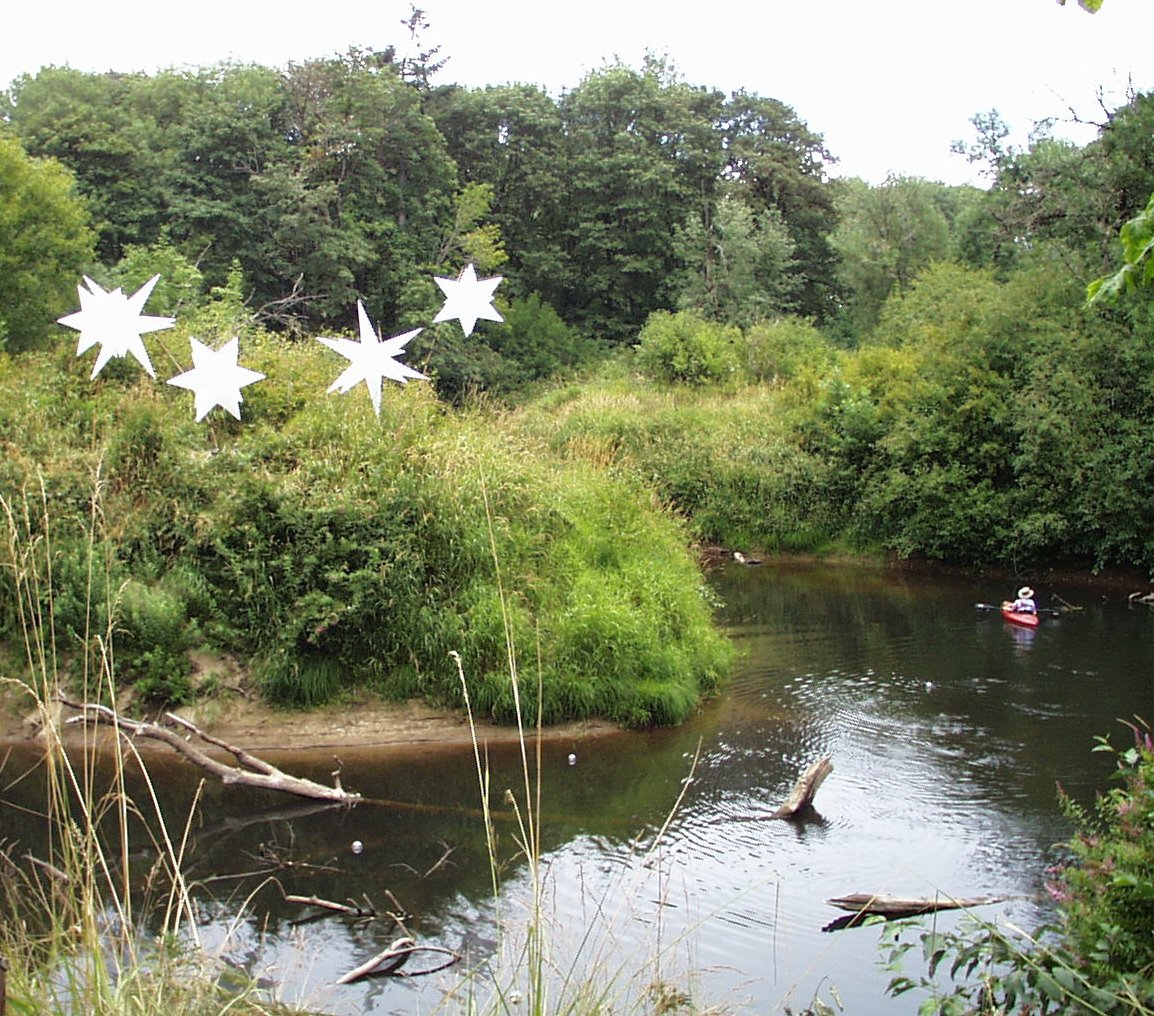 Looking across the Long Tom River during the 2007 Oregon Country Fair